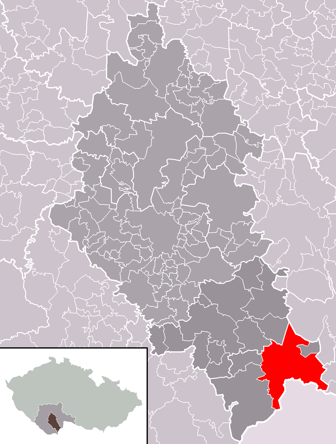 Location of Nové Hrady town within České Budějovice District and administrative area of Trhové Sviny as a Municipality with Extended Competence.